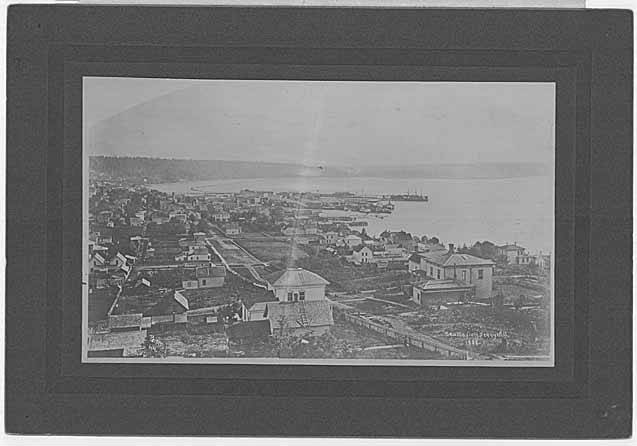 Caption on image: Peiser 44. Seattle from Denny Hill. 1882 On verso of image: Seattle from site of Hotel Washington . Peiser 44 Subjects (LCTGM): Cityscapes; Cityscape photographs